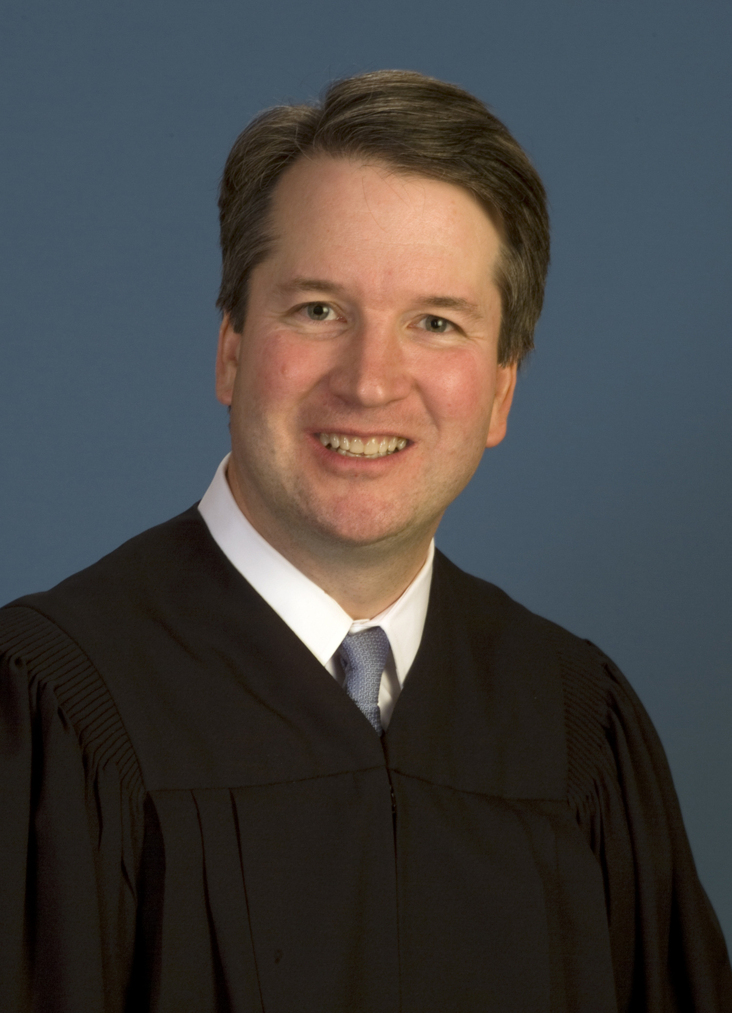 Judge Brett Kavanaugh, U.S. Court of Appeals for the District of Columbia Circuit